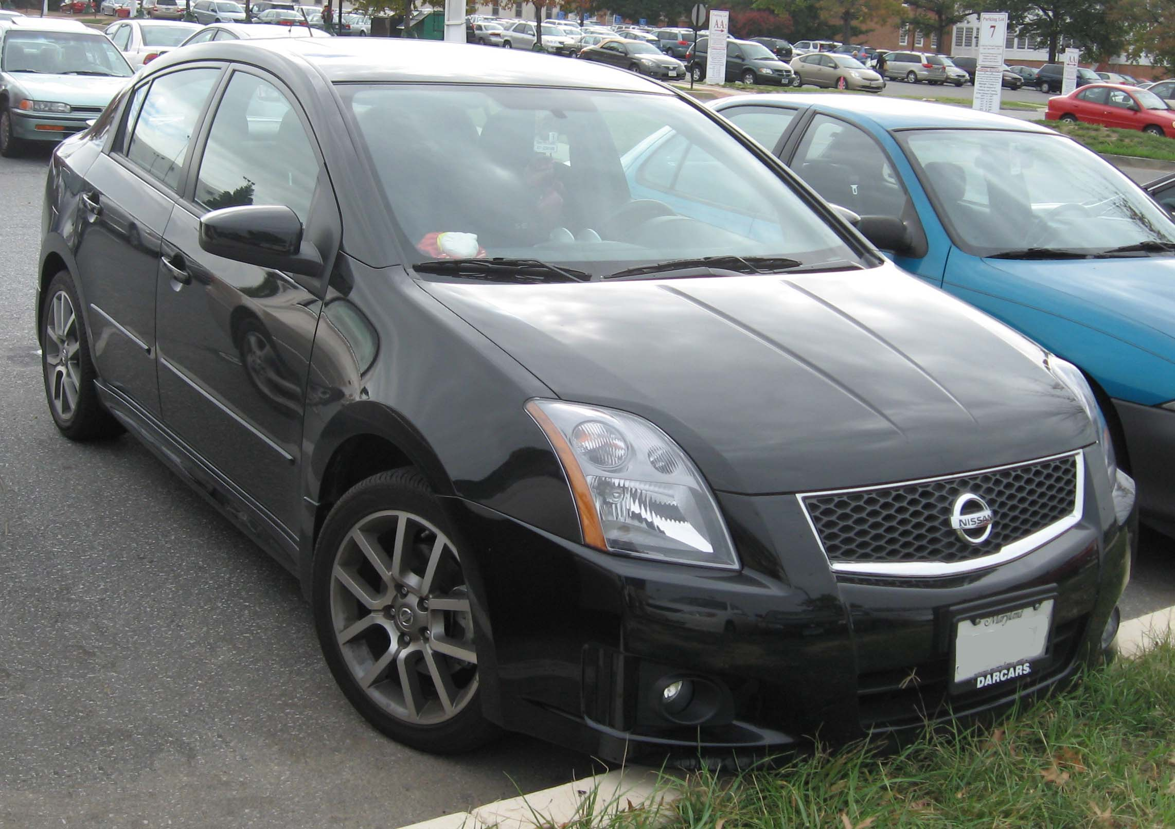 2008 Nissan Sentra SE-R photographed in College Park, Maryland, USA.